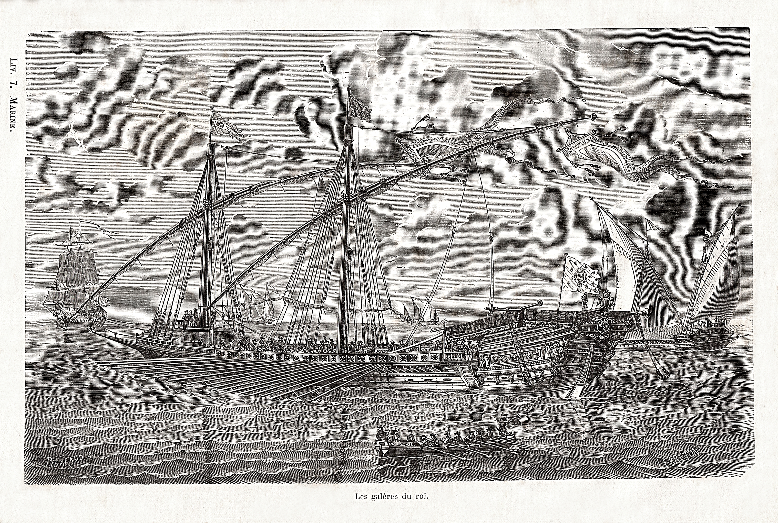 The king's galleys.Engraving by Pibaraud & Lebreton, from the "National history of Navy and french sailors from Jean-Bart untill todays", page 5, by Jules Trousset, Librairie Illustrée, Paris 1870.